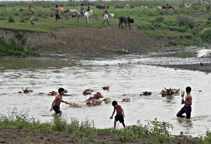 Bathing of cows and bulls is a traditional ritual during Rongali Bihu celebrated by Assamese peoples.